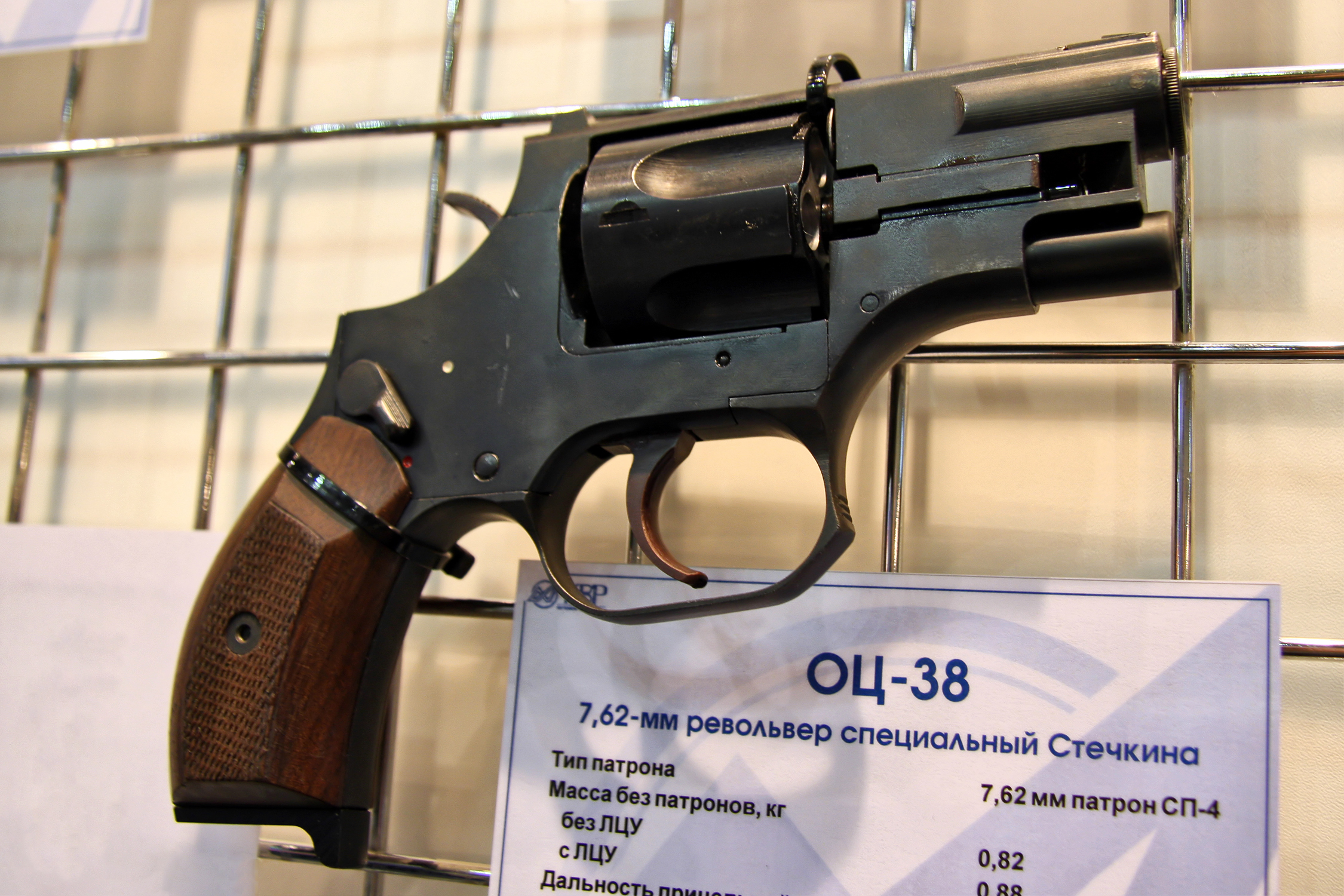 7,62mm OTs-38 revolver in Interpolitex-2011